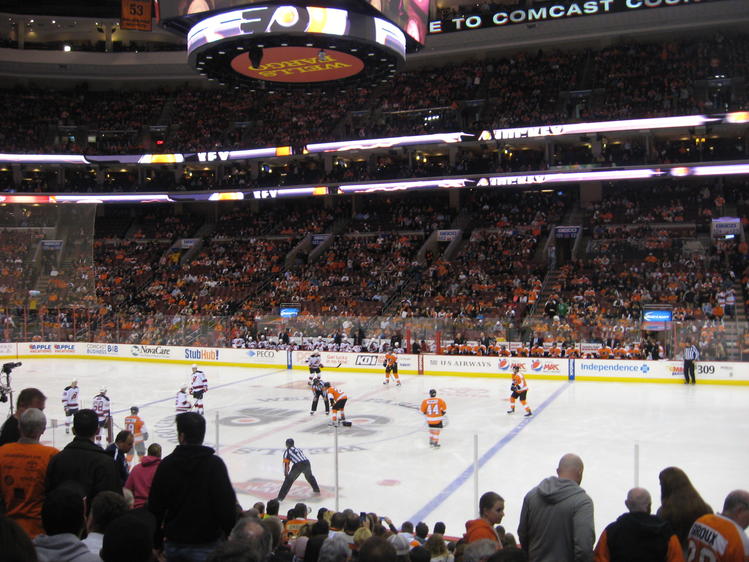 Wells Fargo Center in 2014